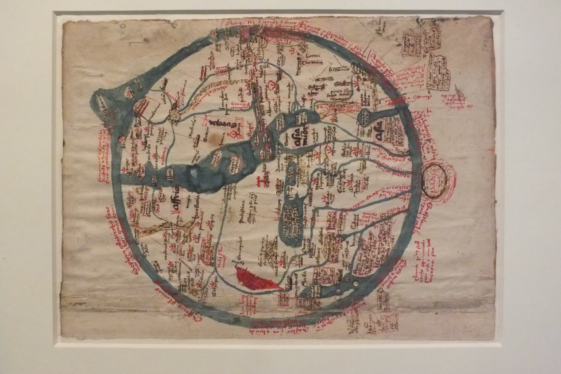 T and O map of the world, centered on Jerusalem, made somewhere in Silesia (possibly in Głogów in Poland), around 1485. From the preview of the exhibition Temple of Sciences and Muses, introducing the history of the Research Library in Olomouc and some of the most notable prints manuscripts and maps from its collections. The exhibition took place in the Regional Museum in Olomouc and the Museum of Arts in Olomouc. This picture was taken in the Regional Museum.